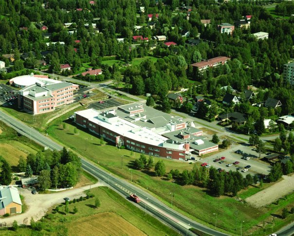 An aerial view of the Ylilieska campus of the Central Ostrobothnia University of Applied Sciences in Ylivieska, Finland